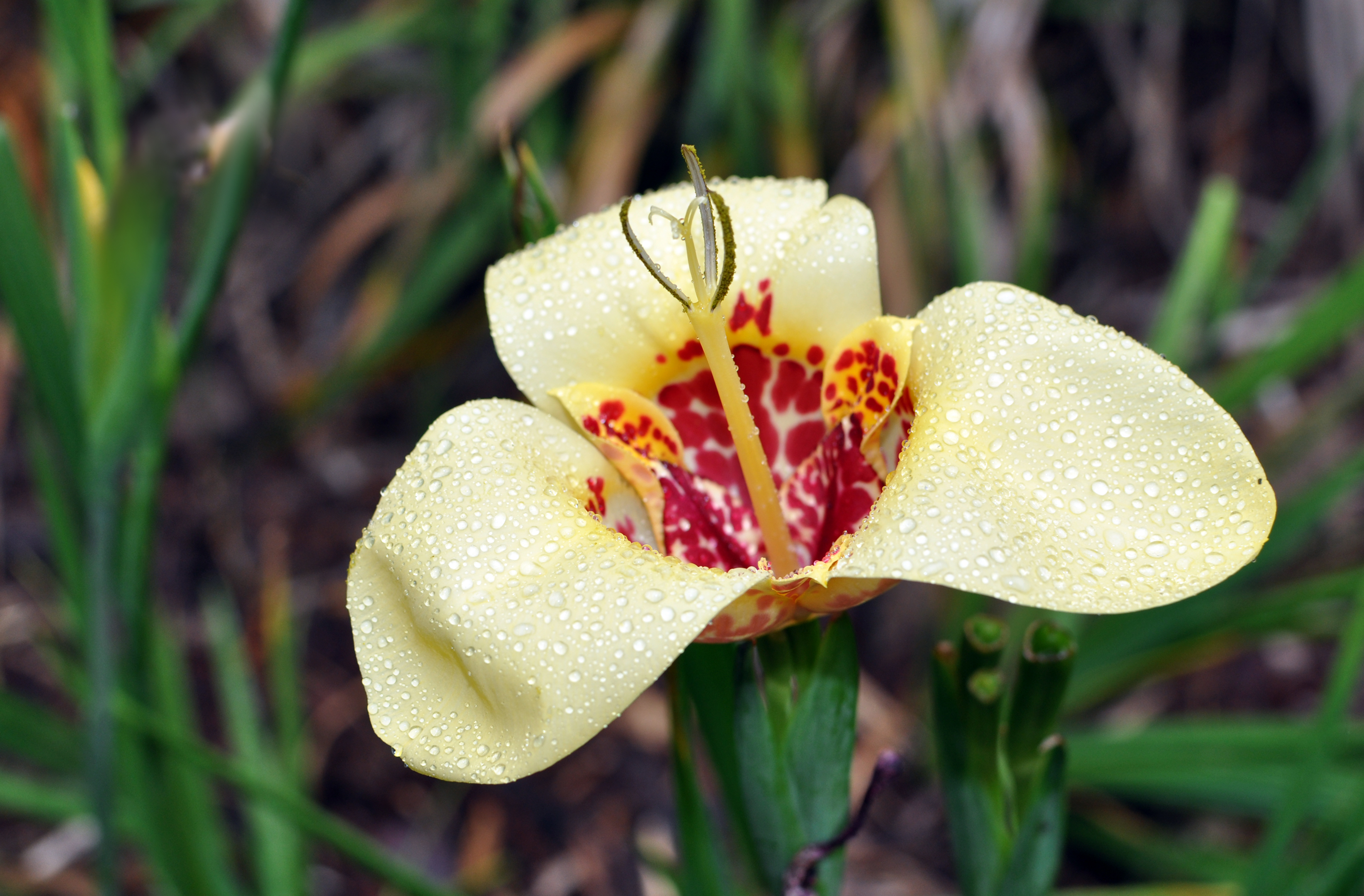 Flower of Tigridia pavonia at Conservatoire botanique national de Brest